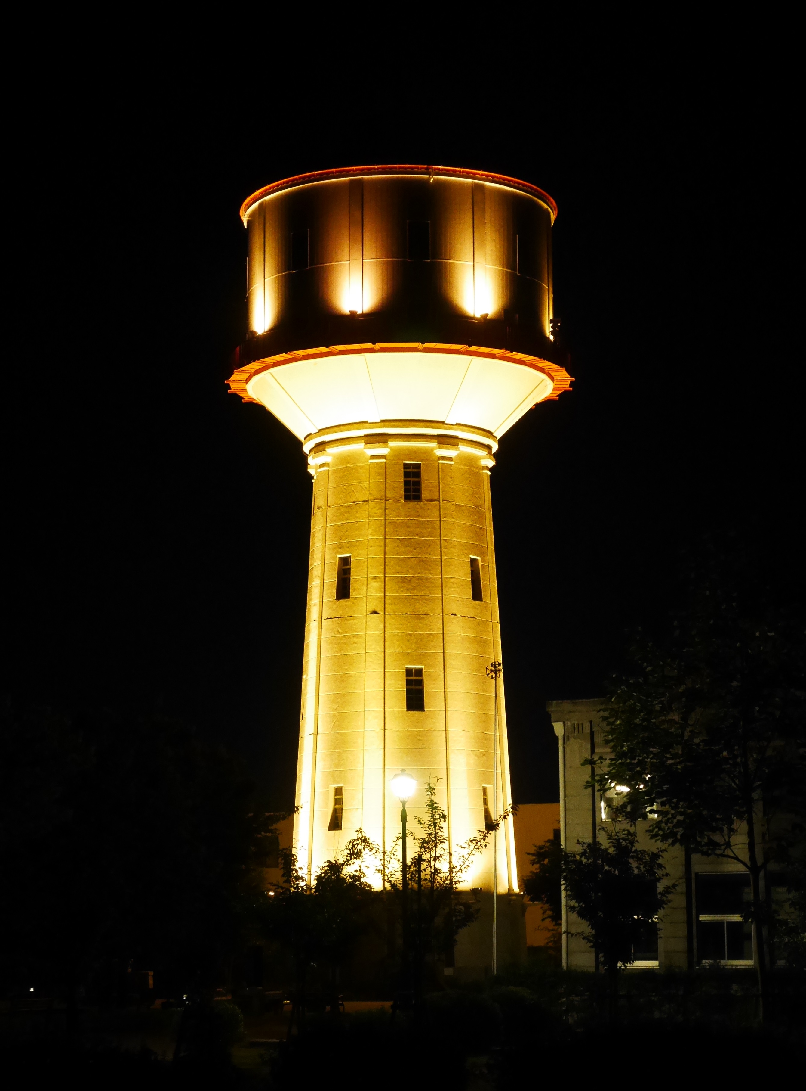 Old water tower in Nagaoka city "Suidoto"